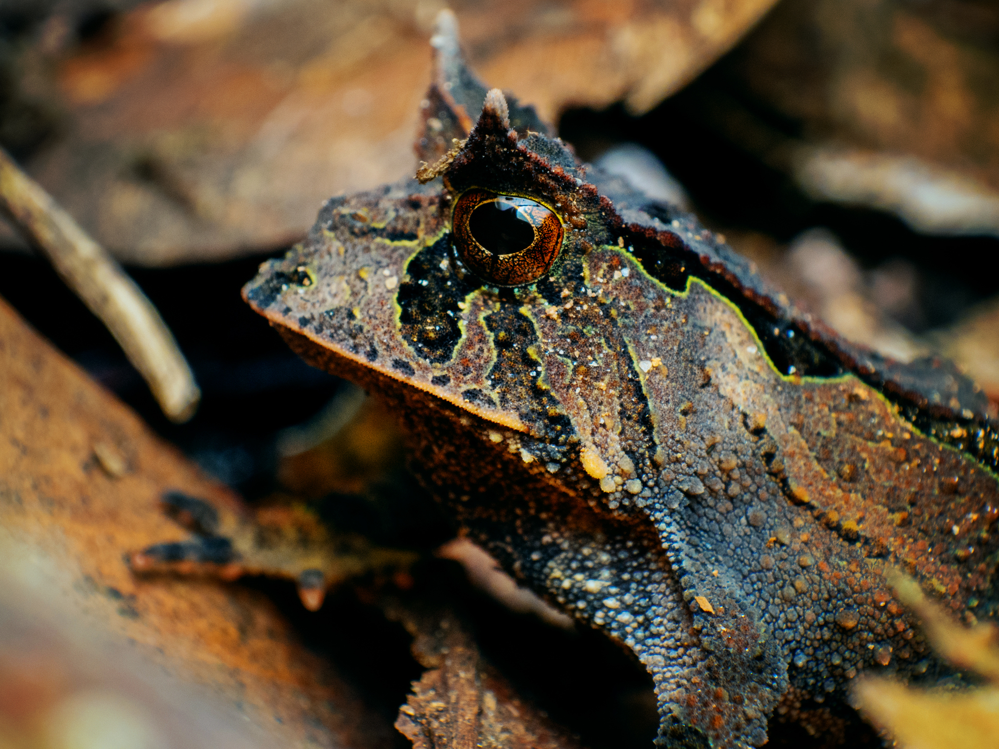 Horned frog in the atlantic forest of Carlos Botelho State Park, Sâo Miguel Arcanjo, Brazil.